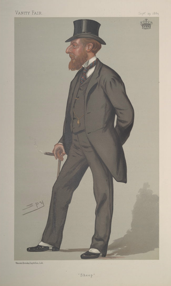 Statesmen No.434: Caricature of The Earl of Seafield. Caption reads: "Sheep"